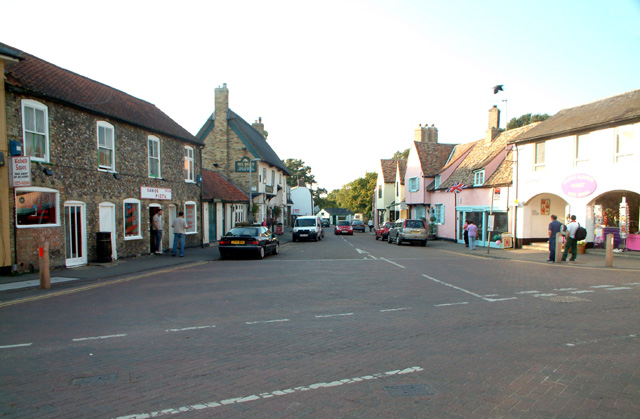 Fulbourn High Street. Looking northwest.